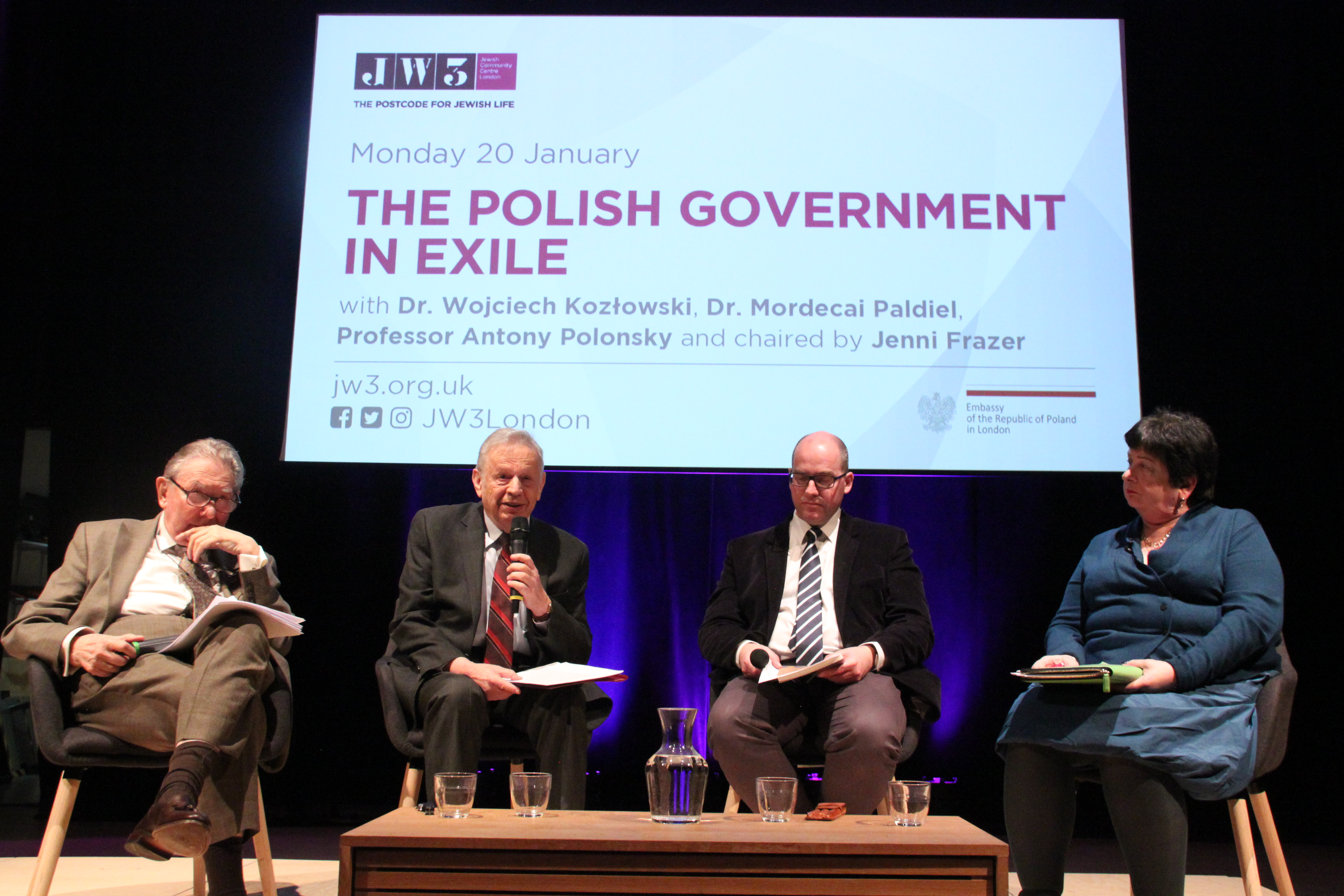 Antony Polonsky, Mordecai Paldiel, Wojciech Kozłowski, Jenni Frazer during the discussion at the Jewish community centre JW3 in London